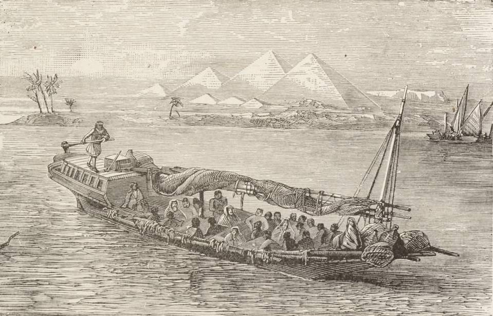 Modern Slave boat on the Nile. Sailboat with people clustered on the deck floating down the Nile; the Pyramids are visible in the background.